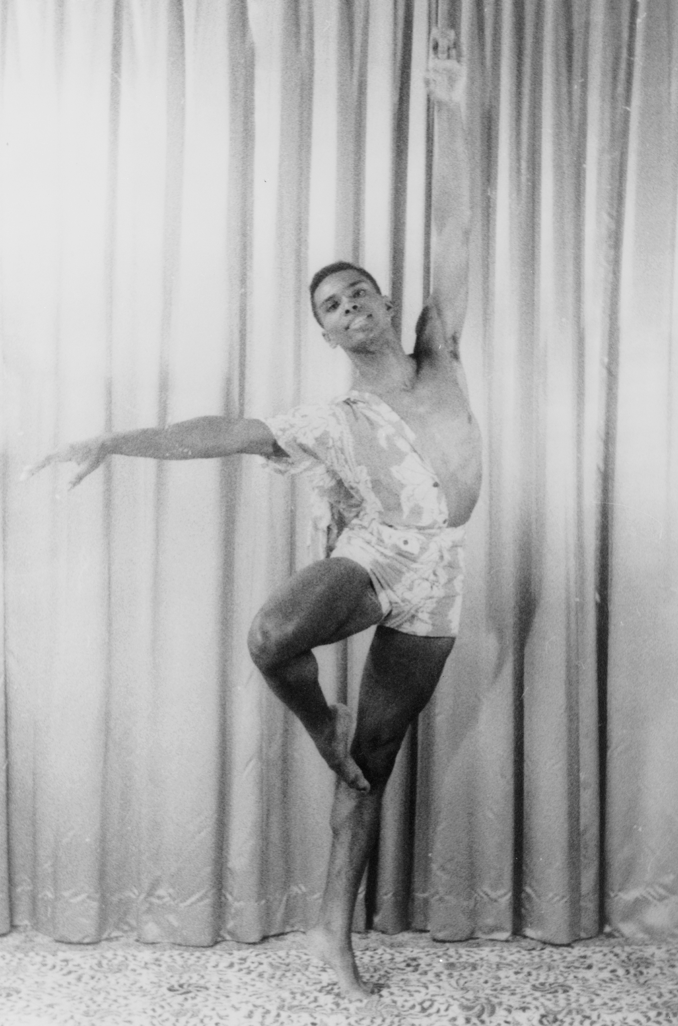 Portrait of Arthur Mitchell.